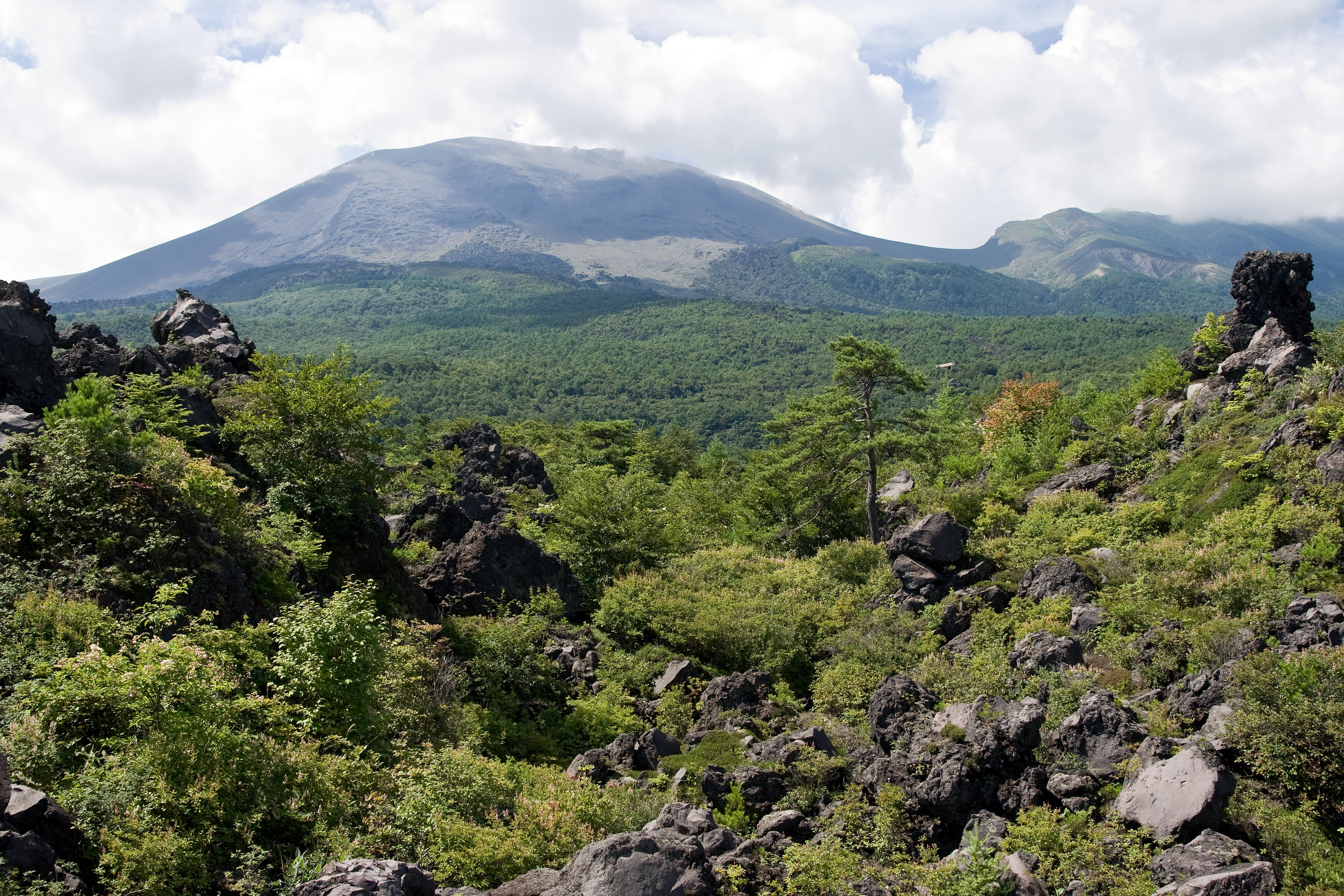 Mt.Asama as seen from Onioshidashi, Tsumagoi Vill., Gunma Pref., Japan